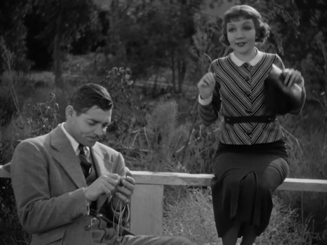 Cropped screenshot of Clark Gable and Claudette Colbert from the trailer for the film It Happened One Night.